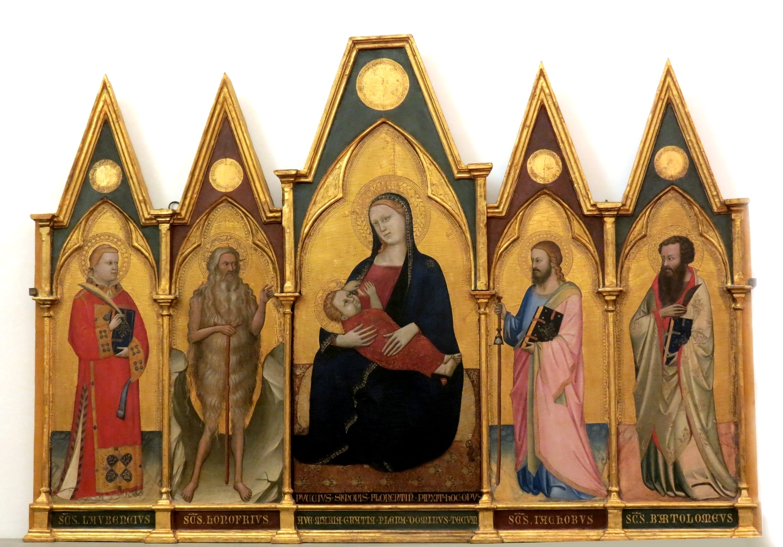 Puccio di Simone. Madonna dell'Umiltà con Bambino, San Lorenzo, Sant'Onofrio, San Giacomo maggiore e San Bartolommeo, ca. 1346, Galleria dell'Accademia, Firenze